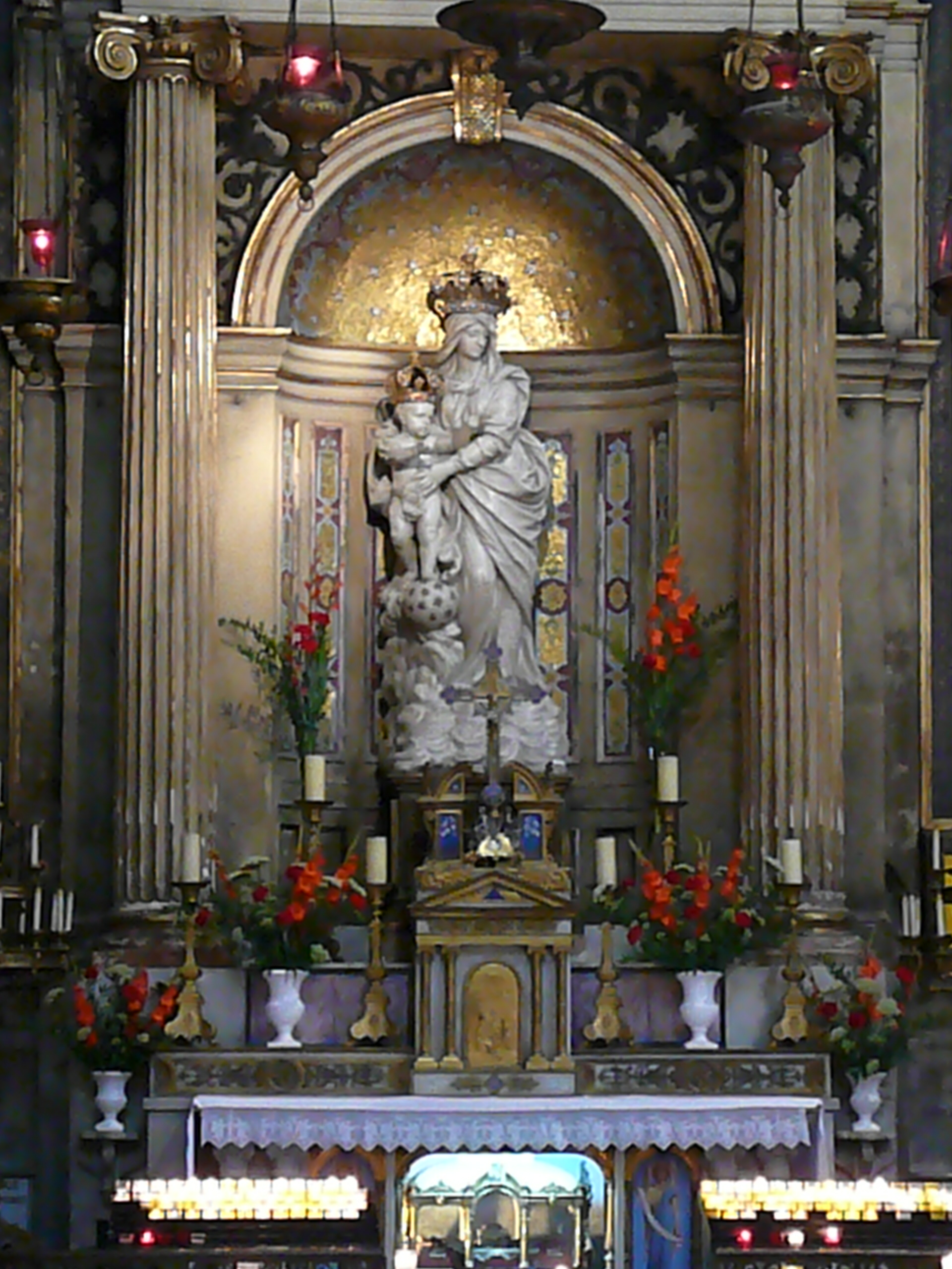 Statue of Notre-Dame-des-Victoires